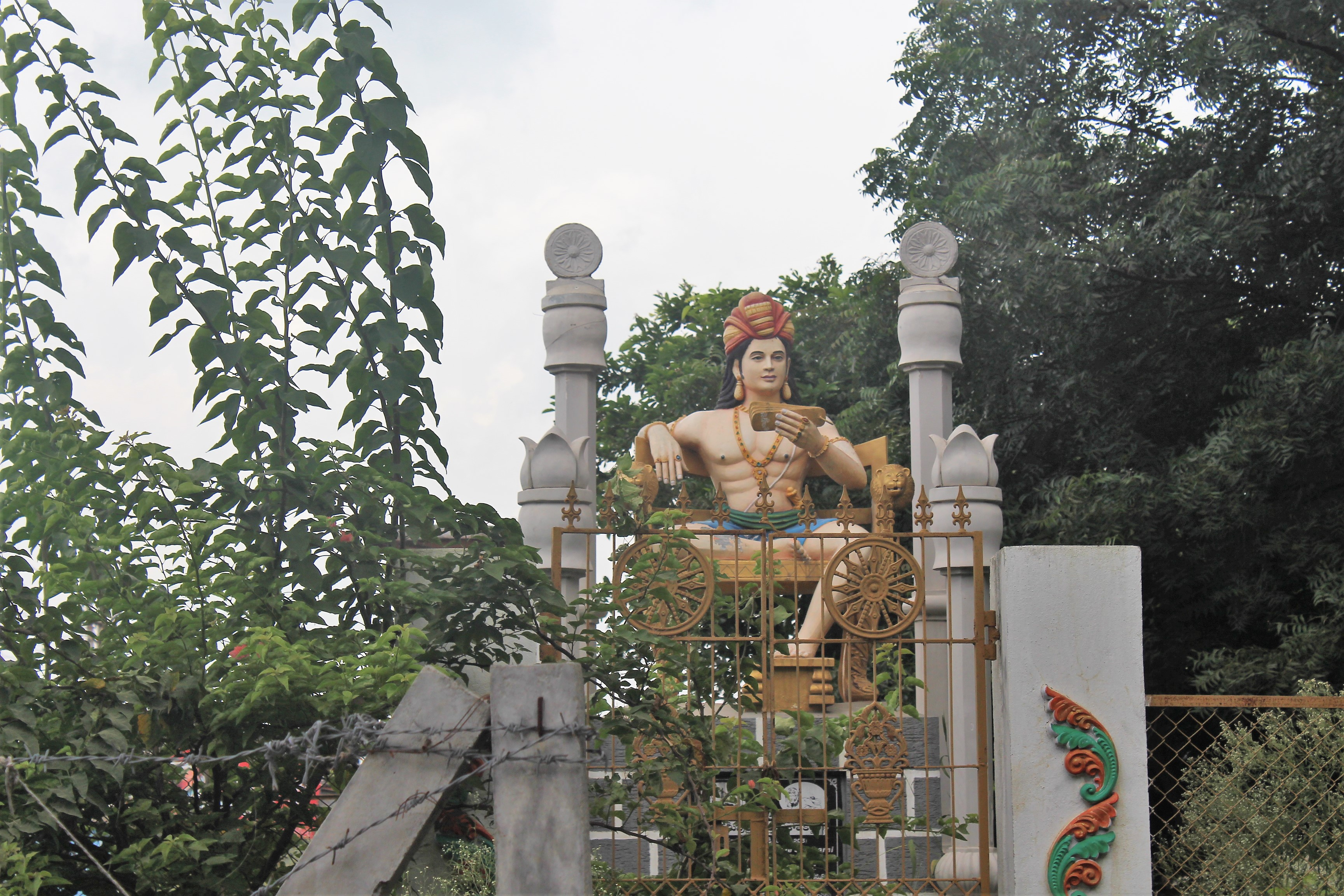 Gautamiputra Satakarni was a ruler of the Satavahana Empire in present-day Deccan region of India. He ruled in the 2nd century CE, although his exact period uncertain. His reign is dated variously: 86-110 CE, c. 103-127 CE, or 106-130 CE.